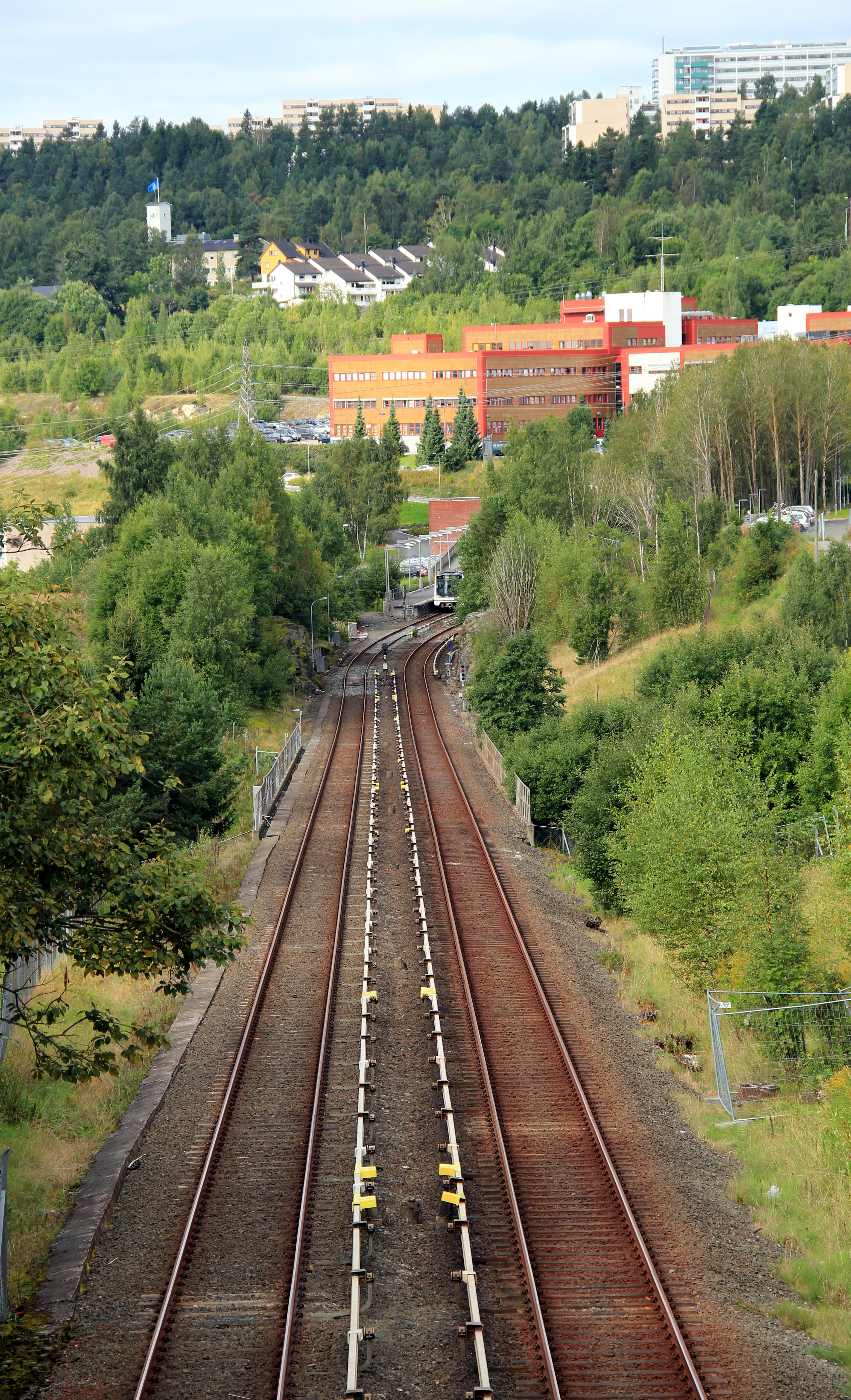 Subway, T-bane, at Rommen, Oslo